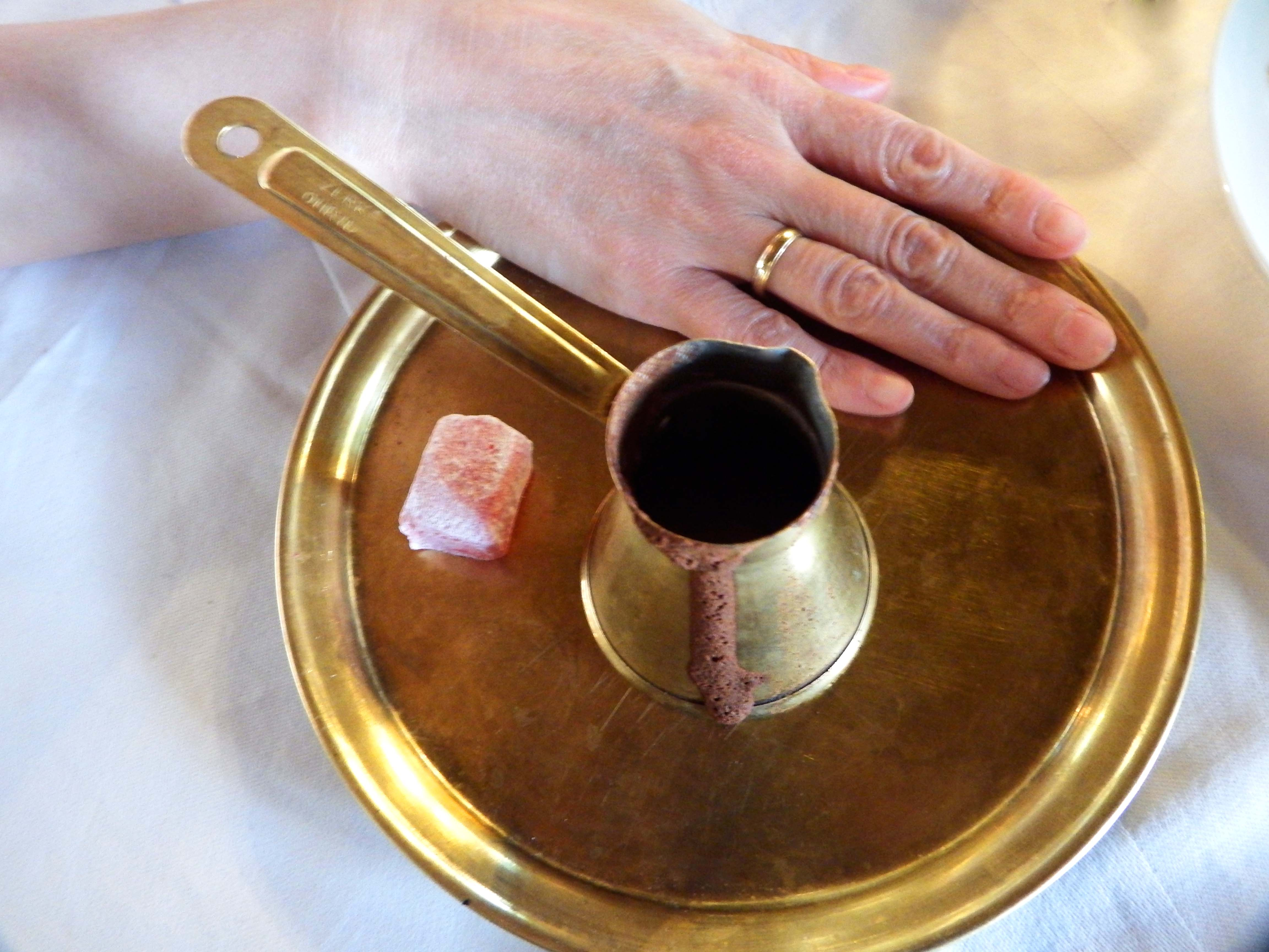 Macedonian welcome to guests with coffee and locum